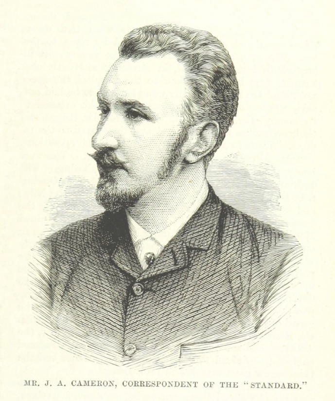 John Alexander Cameron, "Standard's" special war correspondent, from Gordon and the Mahdi, An Illustrated Narrative of the War in the Soudan. London: G. Vickers, 1885.